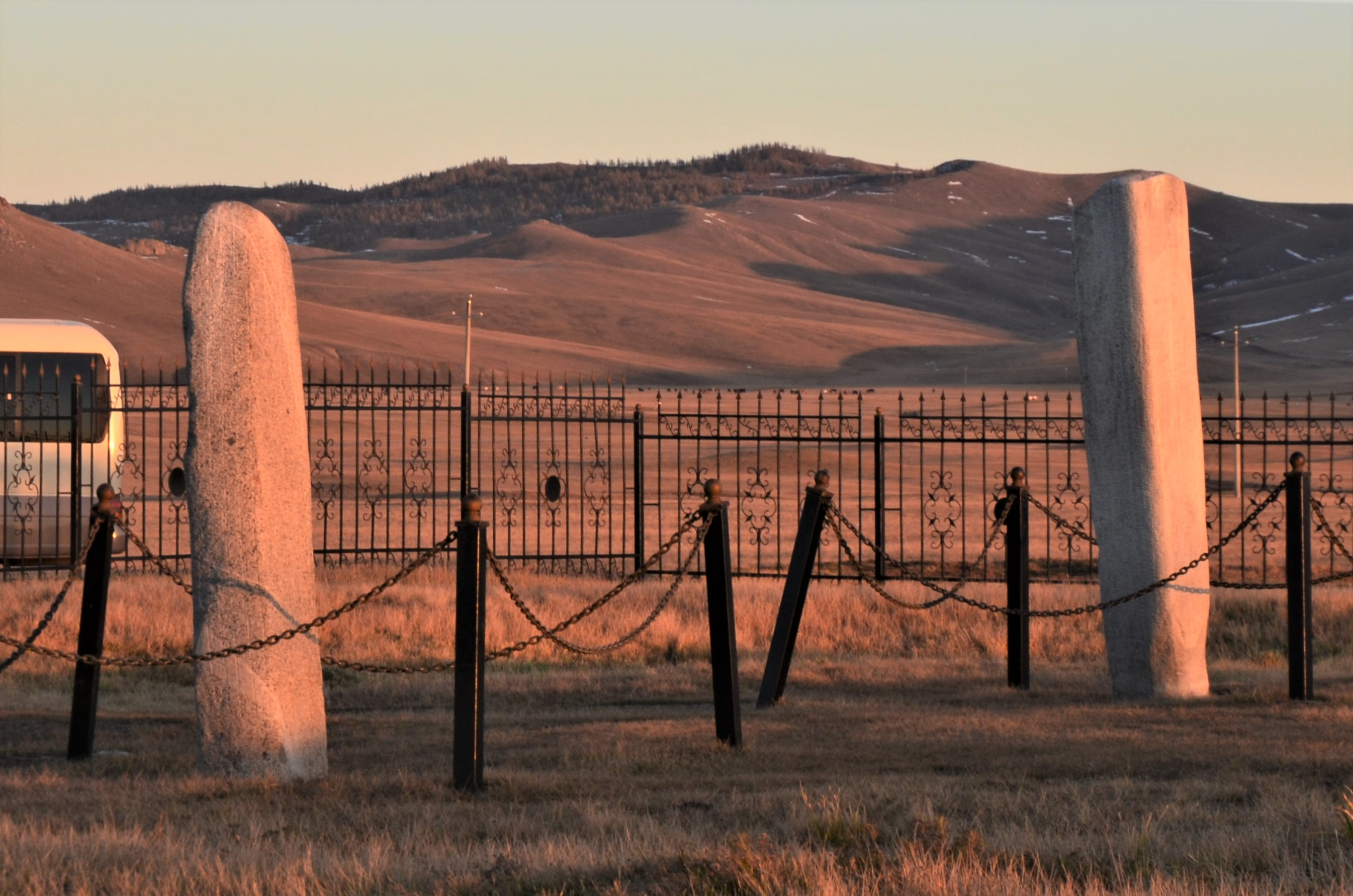 Turkic inscriptions of the 8th century pn two steles dedicated to Bilge Tonyukuk in Mongolia.